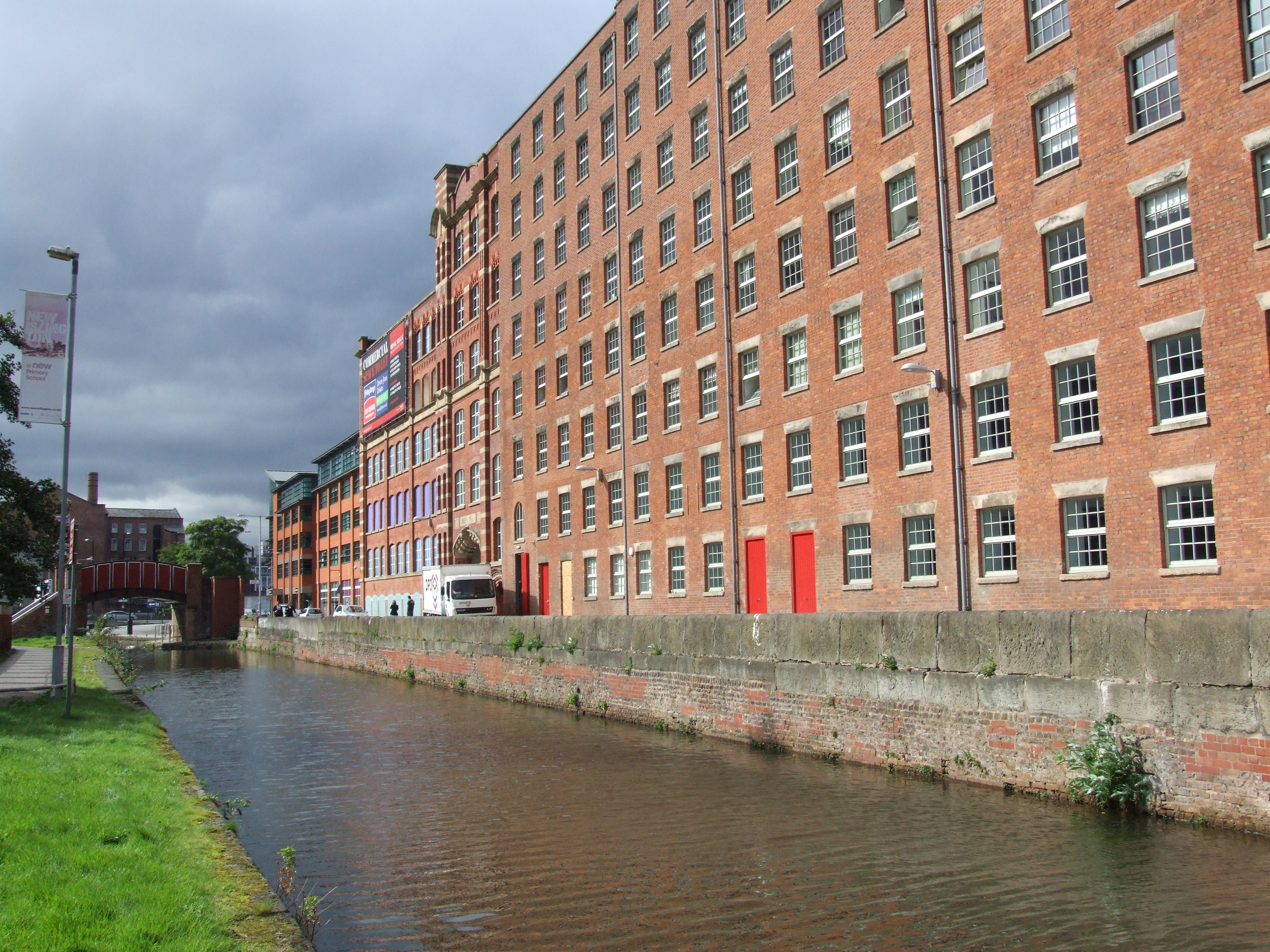 Murray's Mill, McConnel &Kennedy's Mill on the Rochdale Canal in Ancoats Redhill Street.